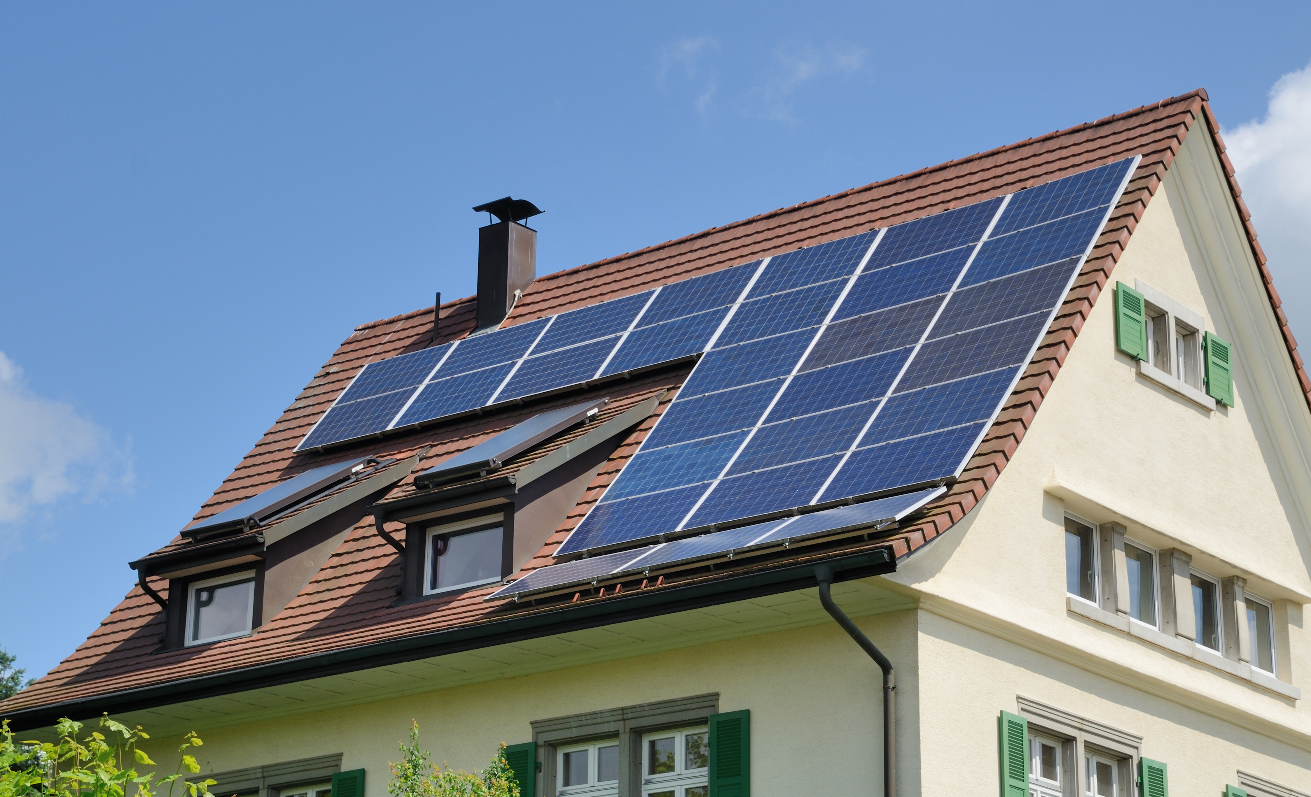 Brombach: building Feldteichstraße 3